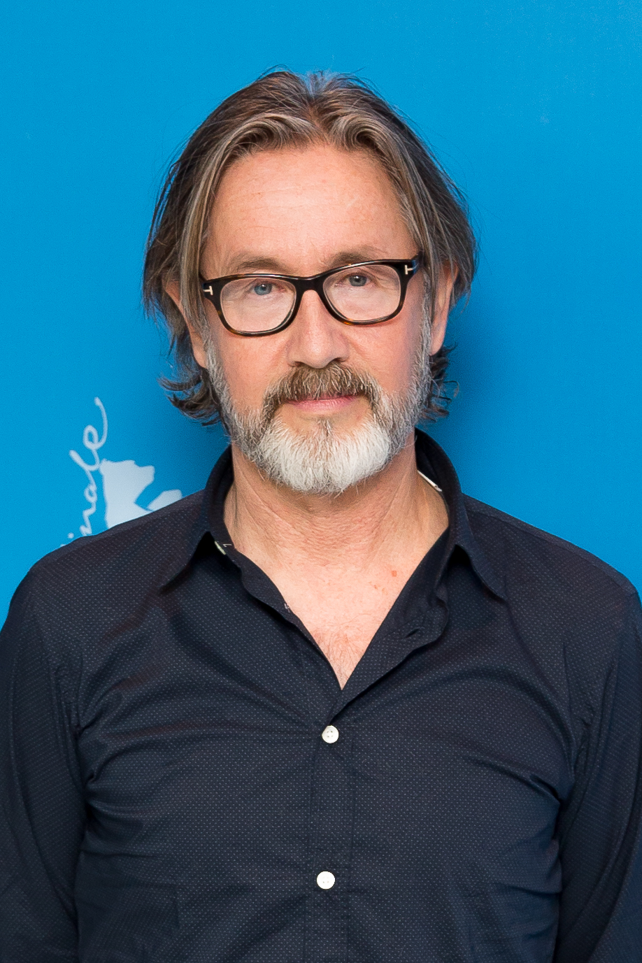 Director Martin Provost at the presentation of Mid Wife during the Berlinale 2017